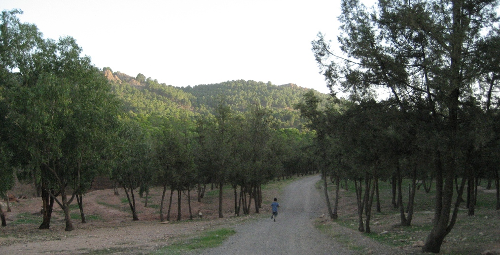 a picture of jbel hamra